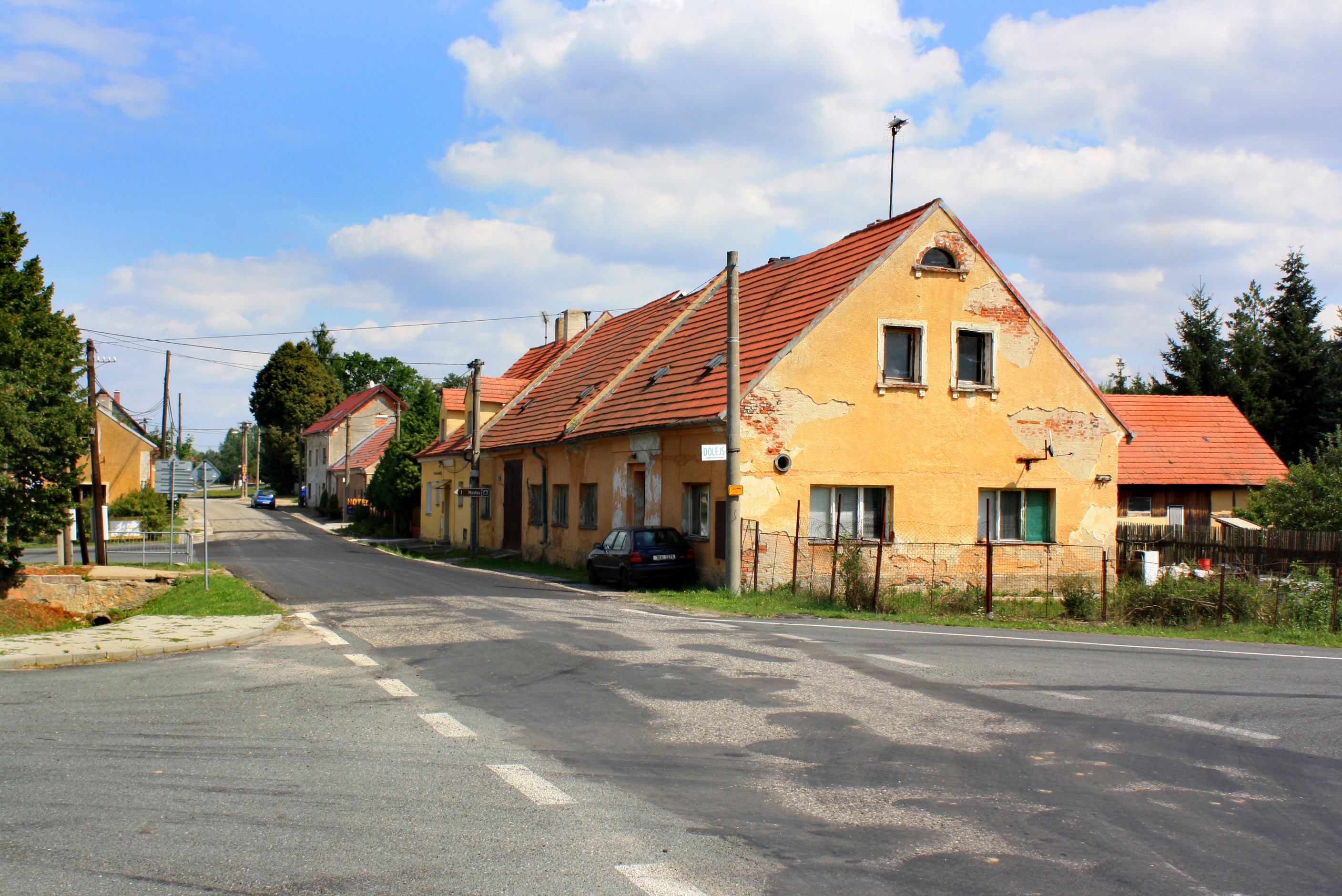 Middle part of Odrava, Czech Republic